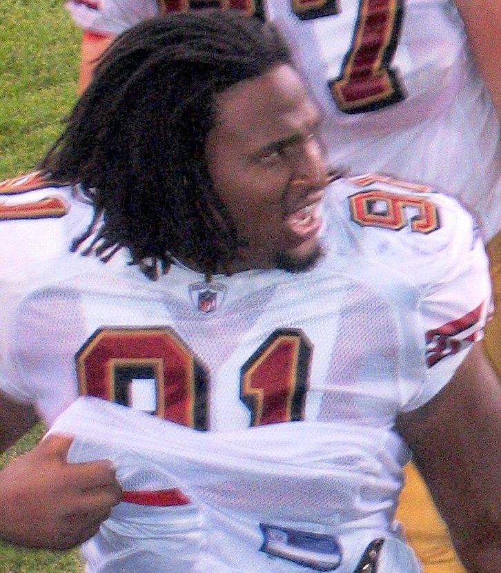 San Francisco 49ers defensive tackle Ray McDonald walking to the sidelines during the 2008 preseason game against the Chicago Bears.